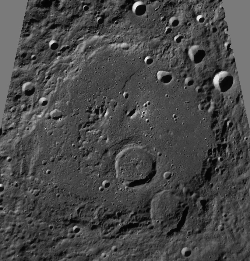 Schwarzschild crater, on the moon. Lunar Reconnaissance Orbiter North Polar mosaic.